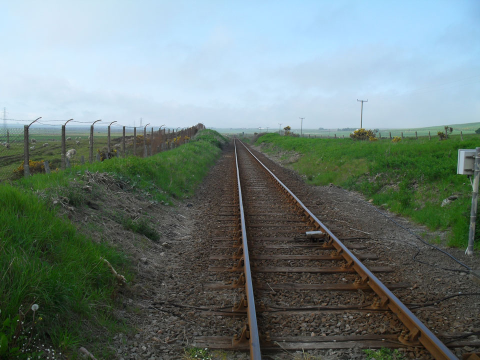 Remains of Hoy Halt. Closed 1960. Near to Roadside, Highland, Great Britain.